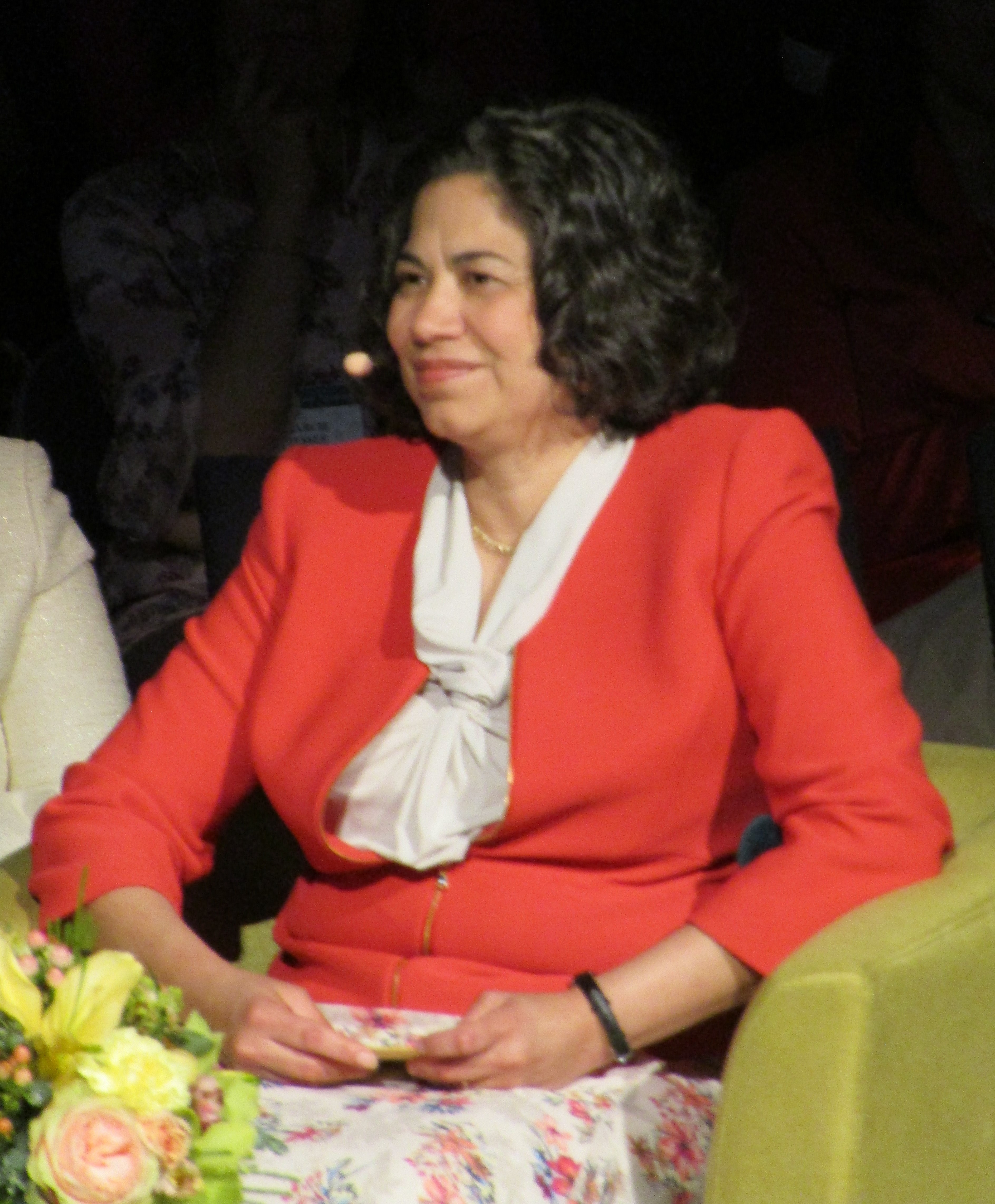 Sister Reyna I. Aburto speaking at the BYU Women's Conference.